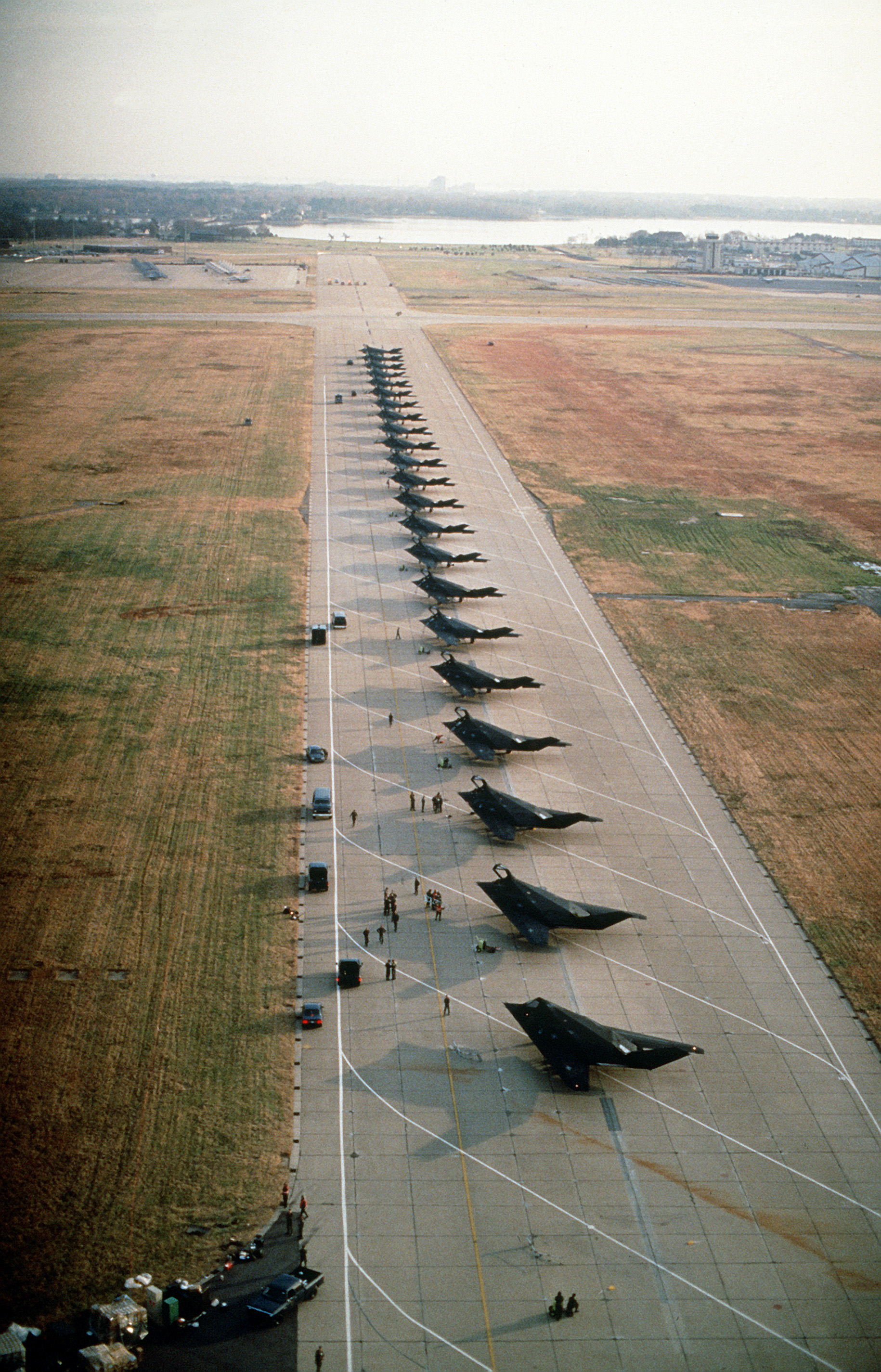 F-117A Stealth fighter aircraft from the 37th Tactical Fighter Wing, Tonopah Test Range, Nev., line the runway after arriving for an overnight stay while deploying to Saudi Arabia during Operation Desert Shield. Location: LANGLEY AIR FORCE BASE, VIRGINIA (VA) UNITED STATES OF AMERICA (USA)